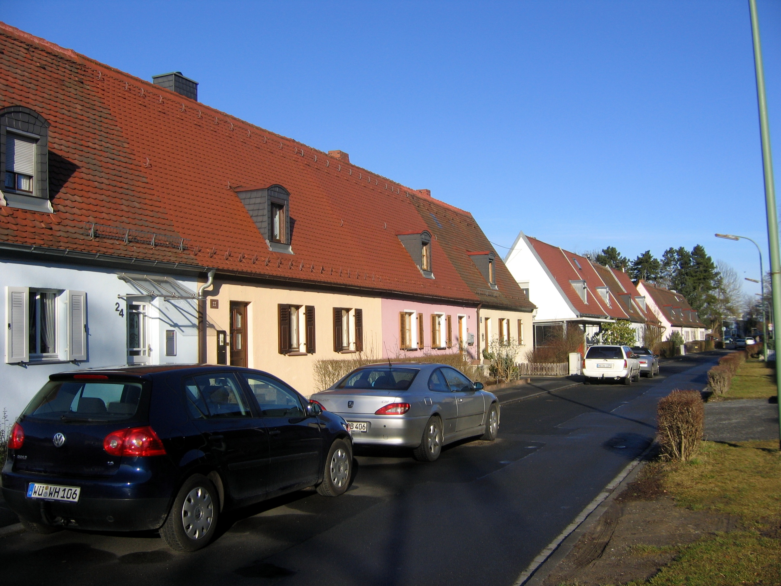 A typical street in Würzburgs area Keesburg